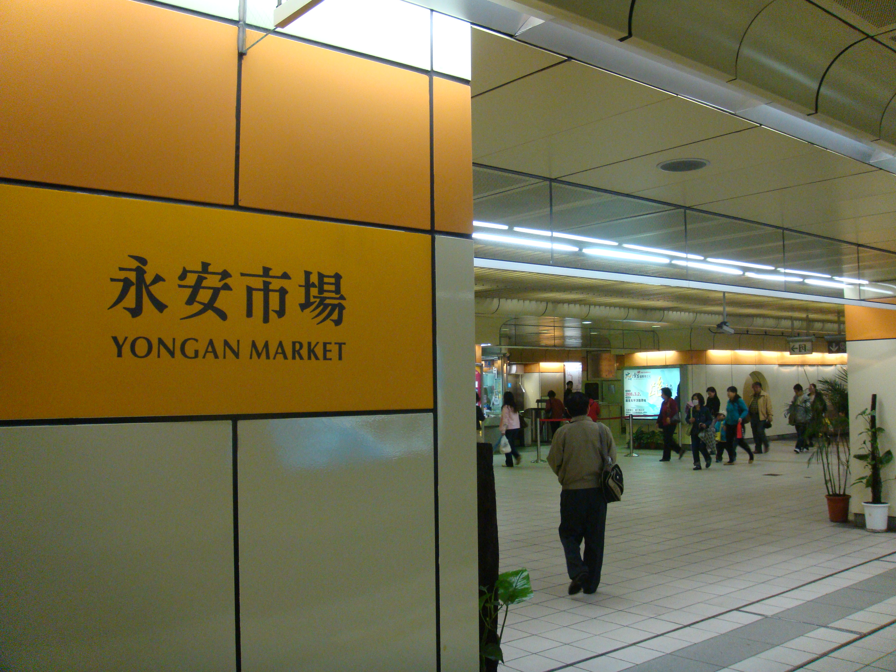 Platform at Yongan Market Station (facing ticket concourse), Zhonghe Line, Taipei Metro, Taiwan.